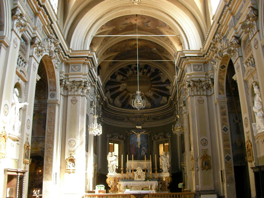 Inside of the church of Saint Lucia to Forlì